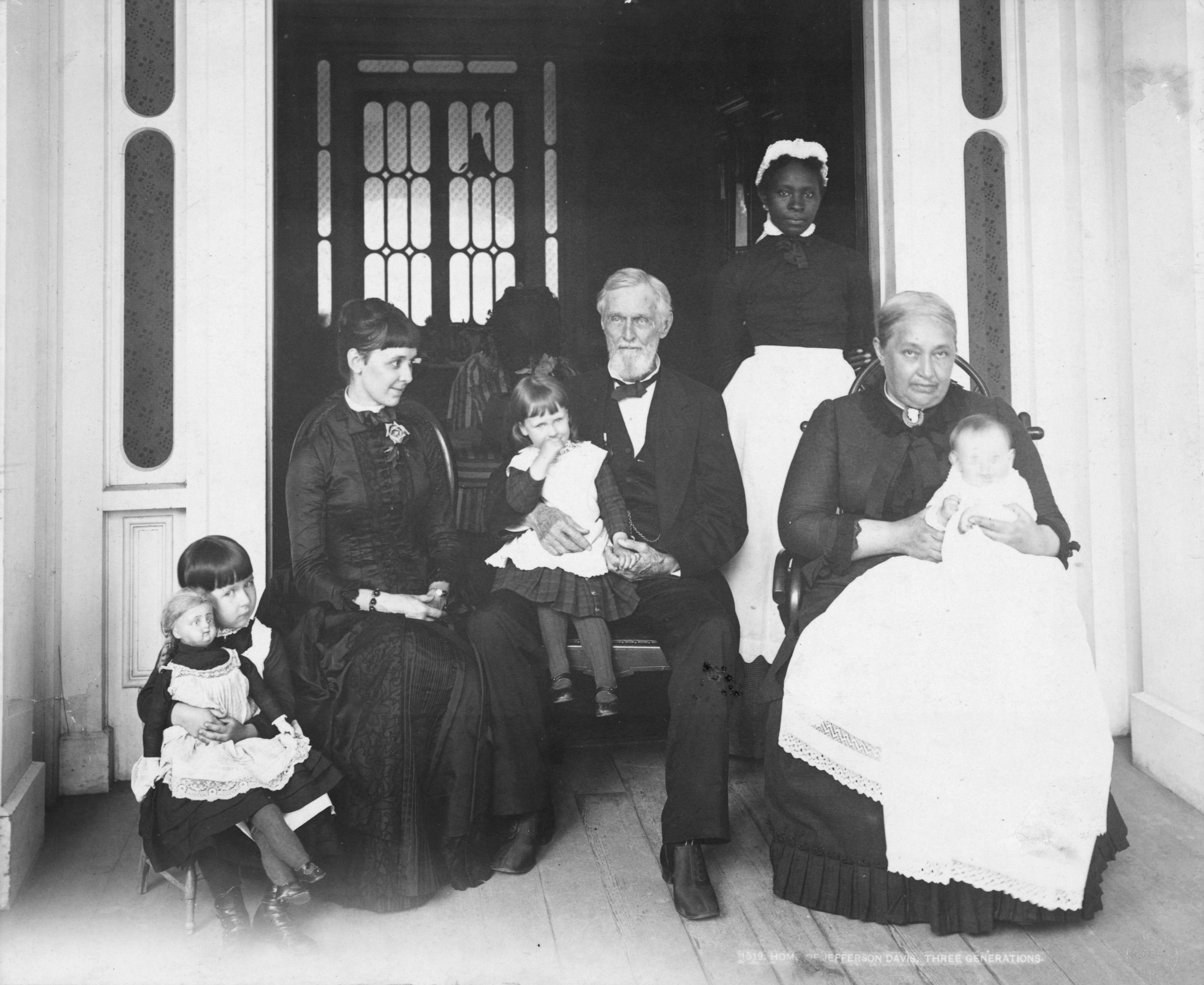 Photo shows the Davis Family at Beauvoir, Mississippi, in 1884 or 1885 (l to r): Varina Howell Davis Hayes [Webb] (1878-1934), Margaret Davis Hayes, Lucy White Hayes [Young] (1882-1966), Jefferson Davis, unidentified servant, Varina Howell Davis, and Jefferson Davis Hayes (1884-1975), whose name was legally changed to Jefferson Hayes-Davis in 1890.